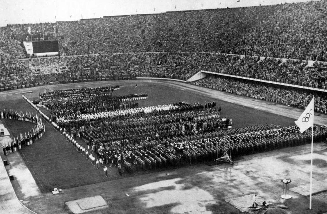 Category:Nations at the 1952 Summer Olympics